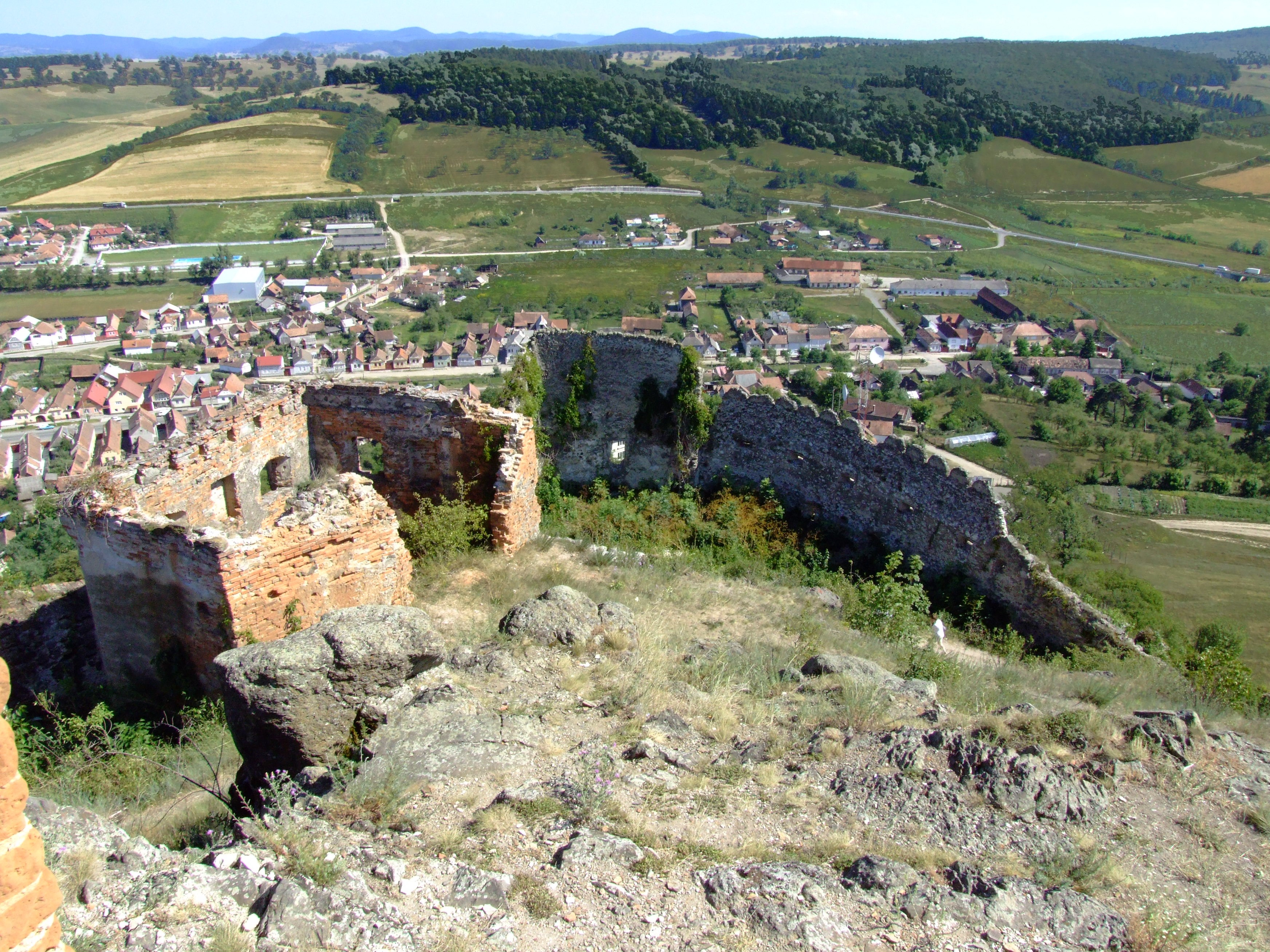 Rupea village and the fortification, view from the top of the basaltic rock inside the church.